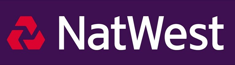 natwest logo